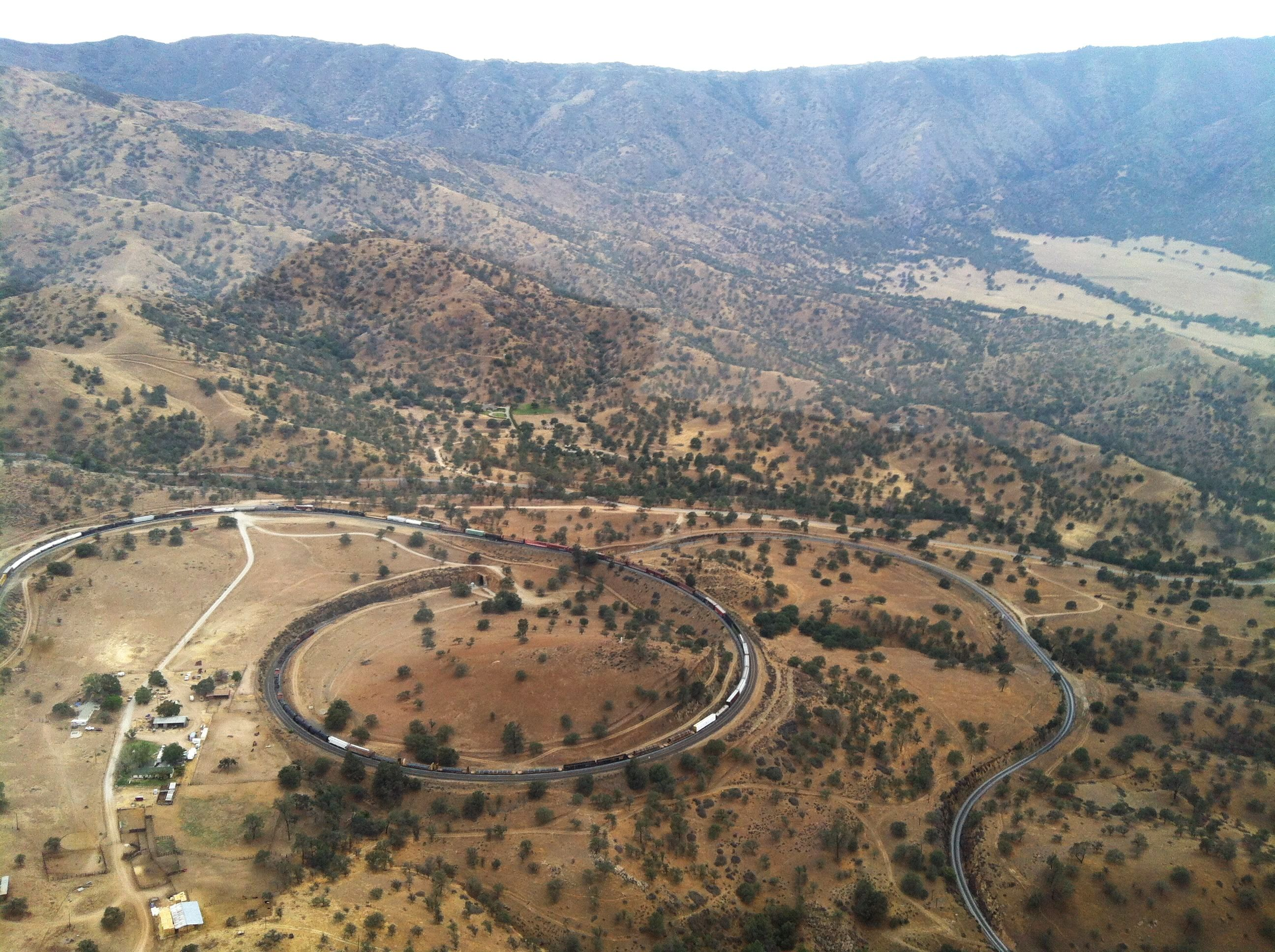 Tehachapi Loop seen from NE, June 2013, picture by bavareze